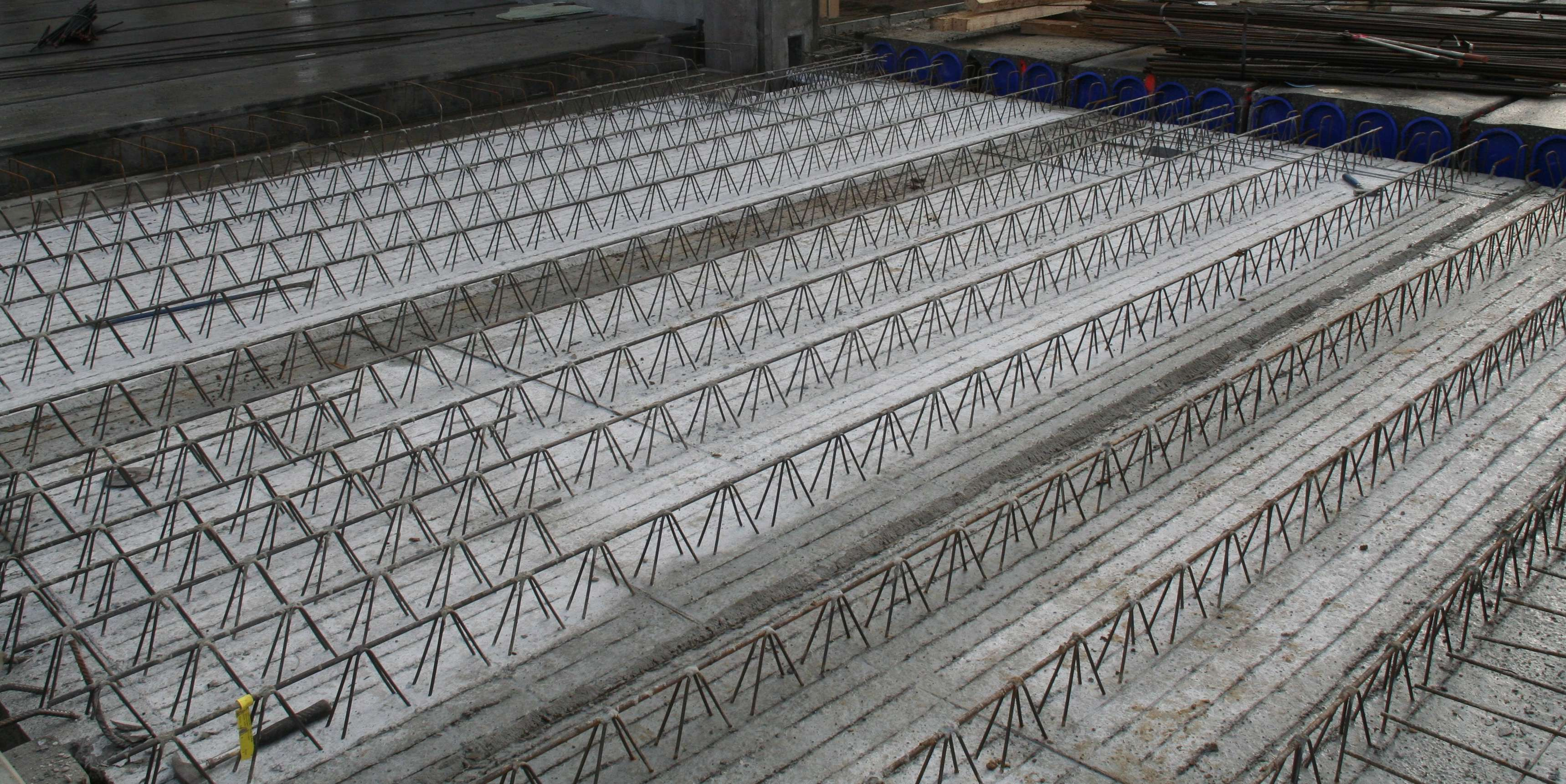 precast ceiling element